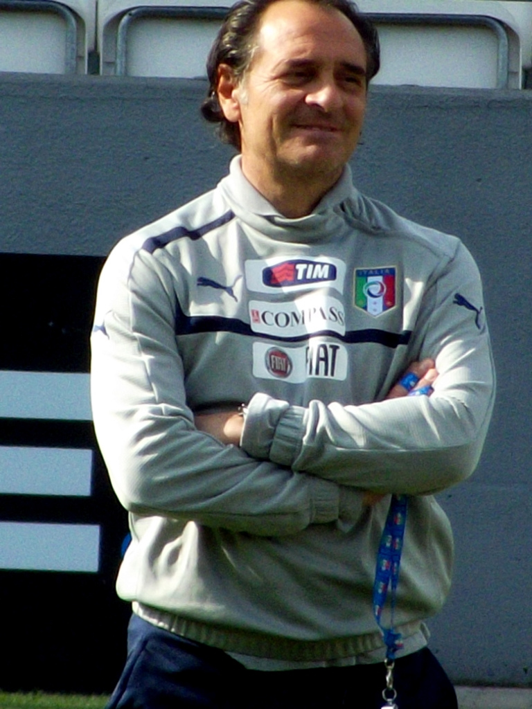 Cesare Prandelli at Italy training session in Krakow June 26, 2012.